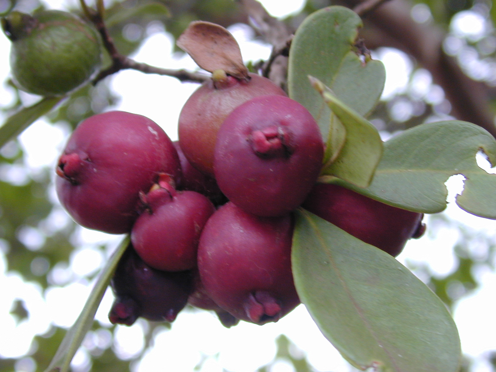 Psidium cattleianum (fruits). Location: Maui, Haiku